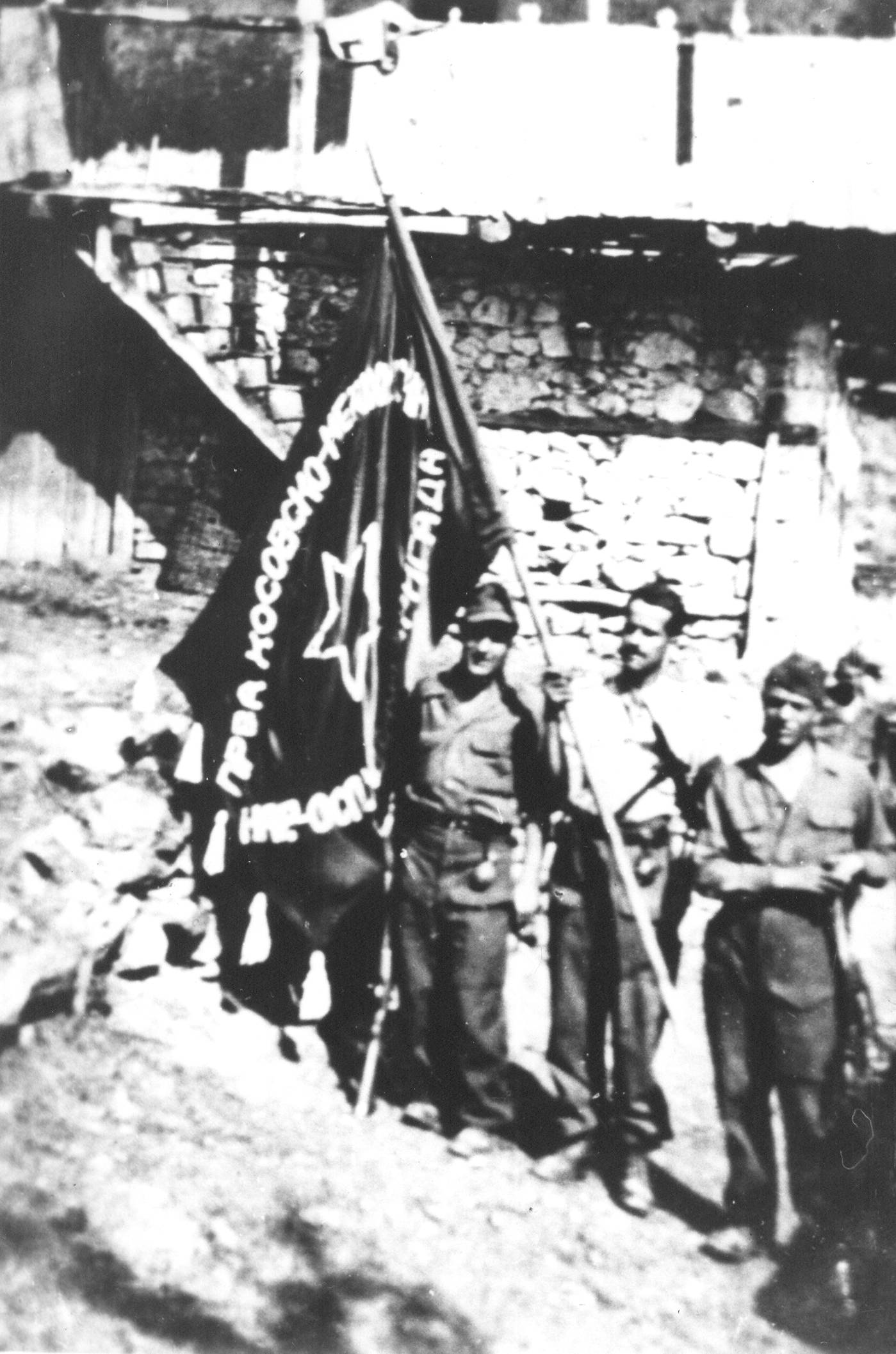 Formation of the First Kosovo-Metohija brigade, Zbaždi village (Republic of Macedonia), 1944.